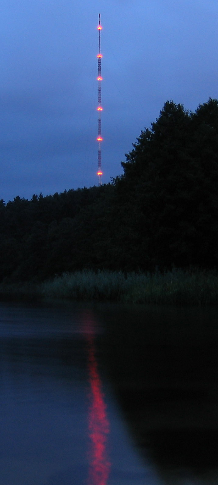 Radiotower in Olsztyn, Poland